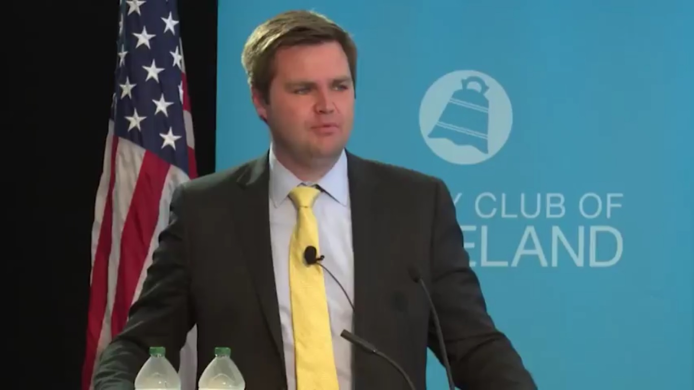 J. D. Vance speaks to the City Club of Cleveland